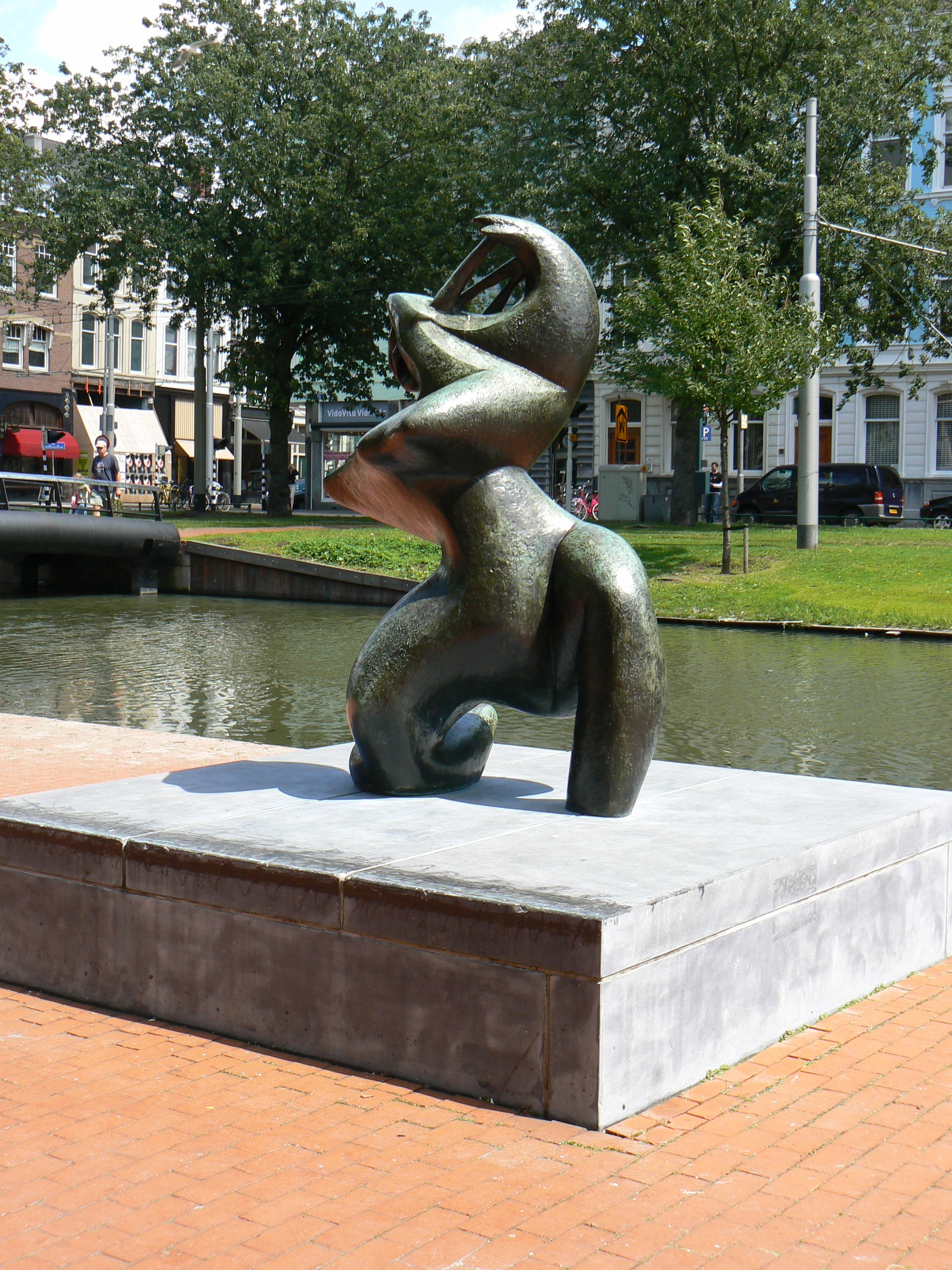 sculpture by Henri Laurens in Rotterdam/The Netherlands